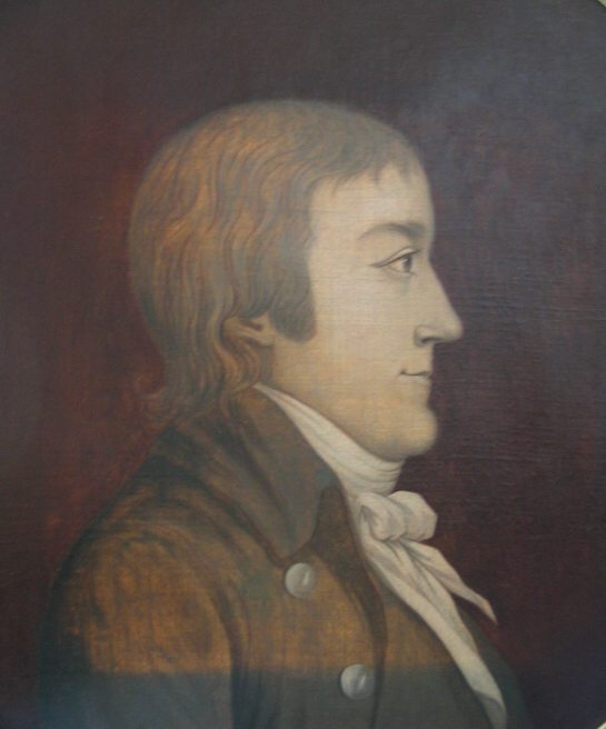 Portrait of Martin Richard Flor